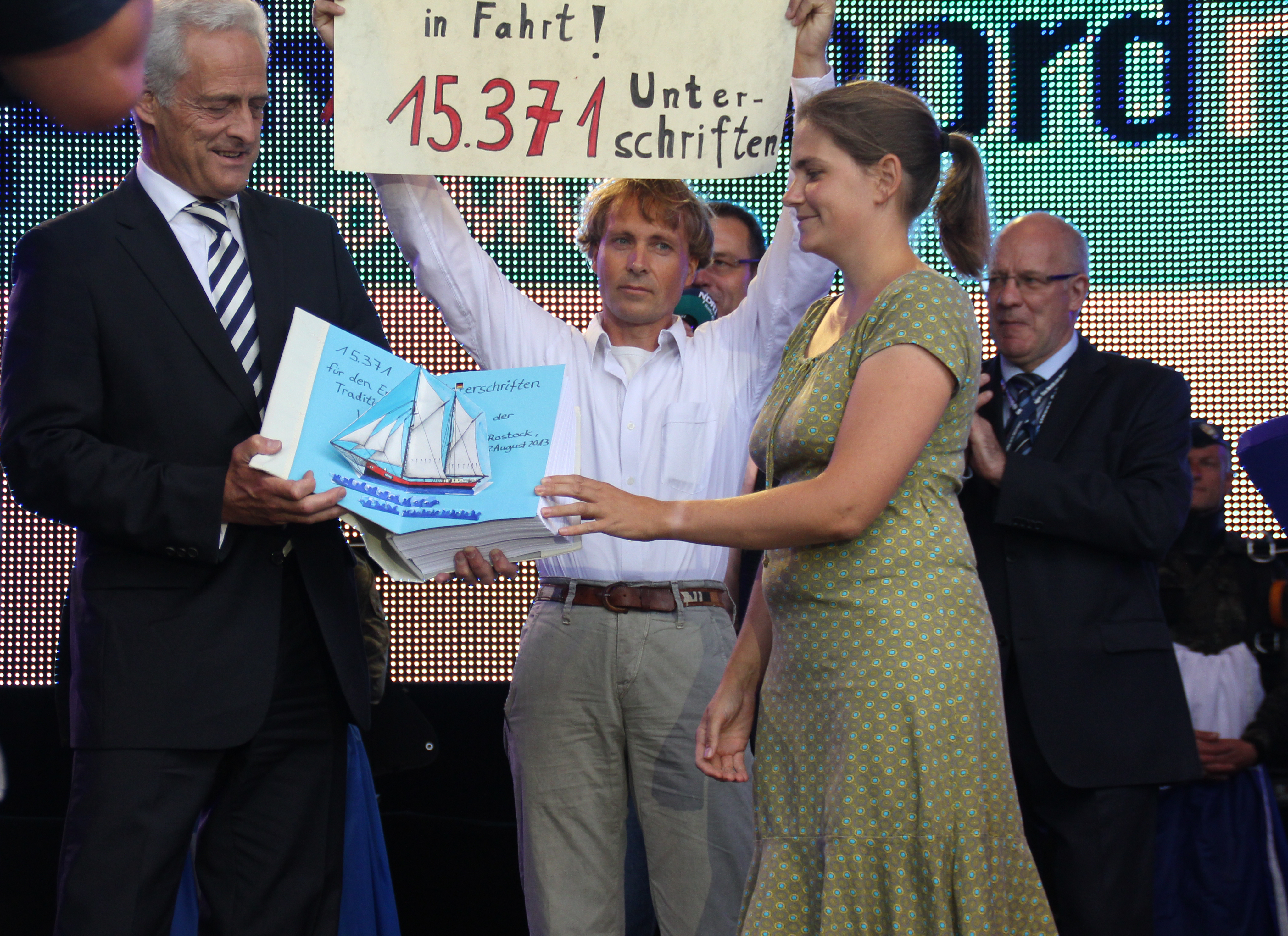 Unterschriften-Übergabe an Verkehrsminister Ramsauer für den Erhalt der Traditionss-Segelschiffe am 8. August 2013 in Kiel (openPetition)